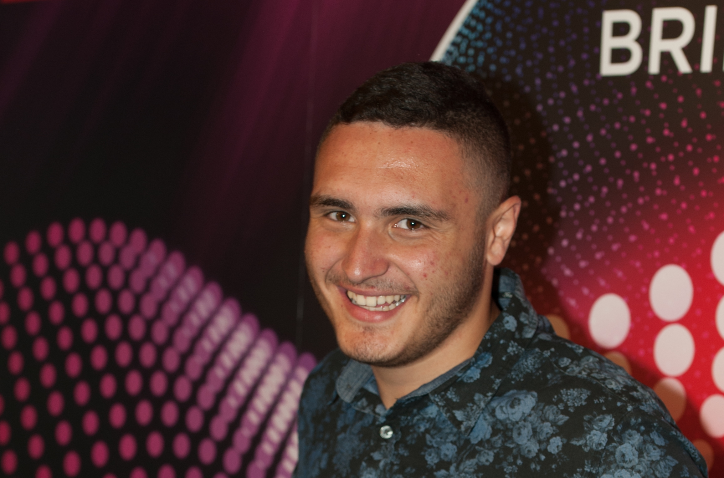 Eurovision Song Contest Vienna 2015: Nadav Guedj